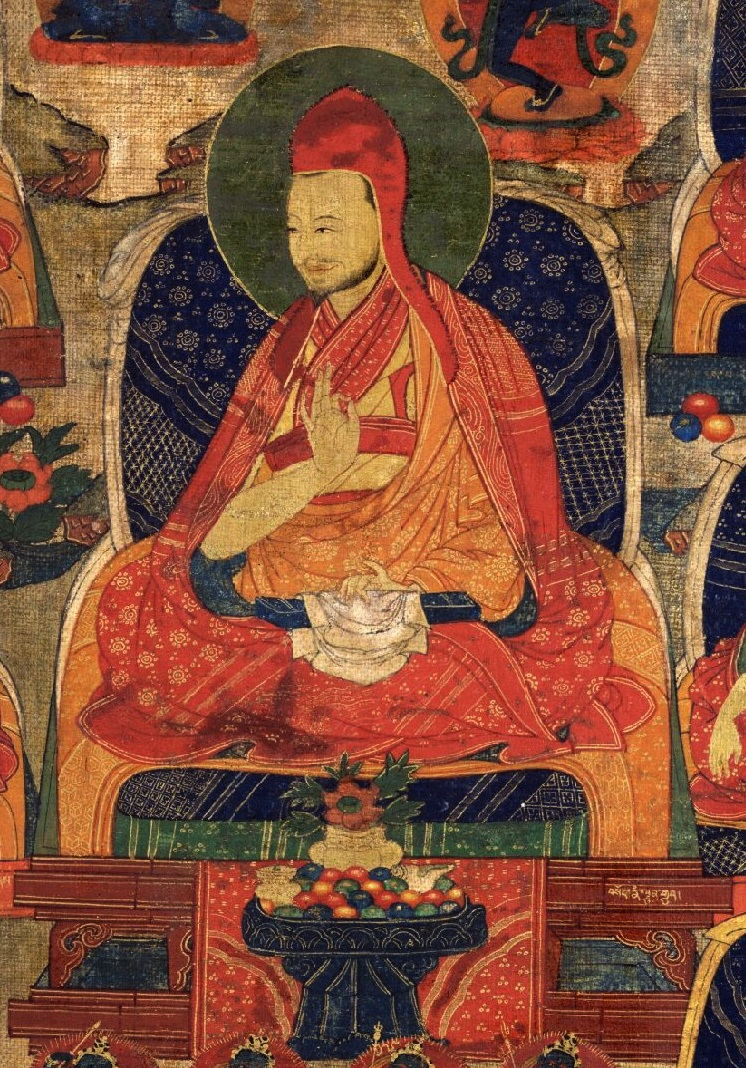 Lowo Khenchen Sonam Lhundrub - 15th Century Sakya Lama